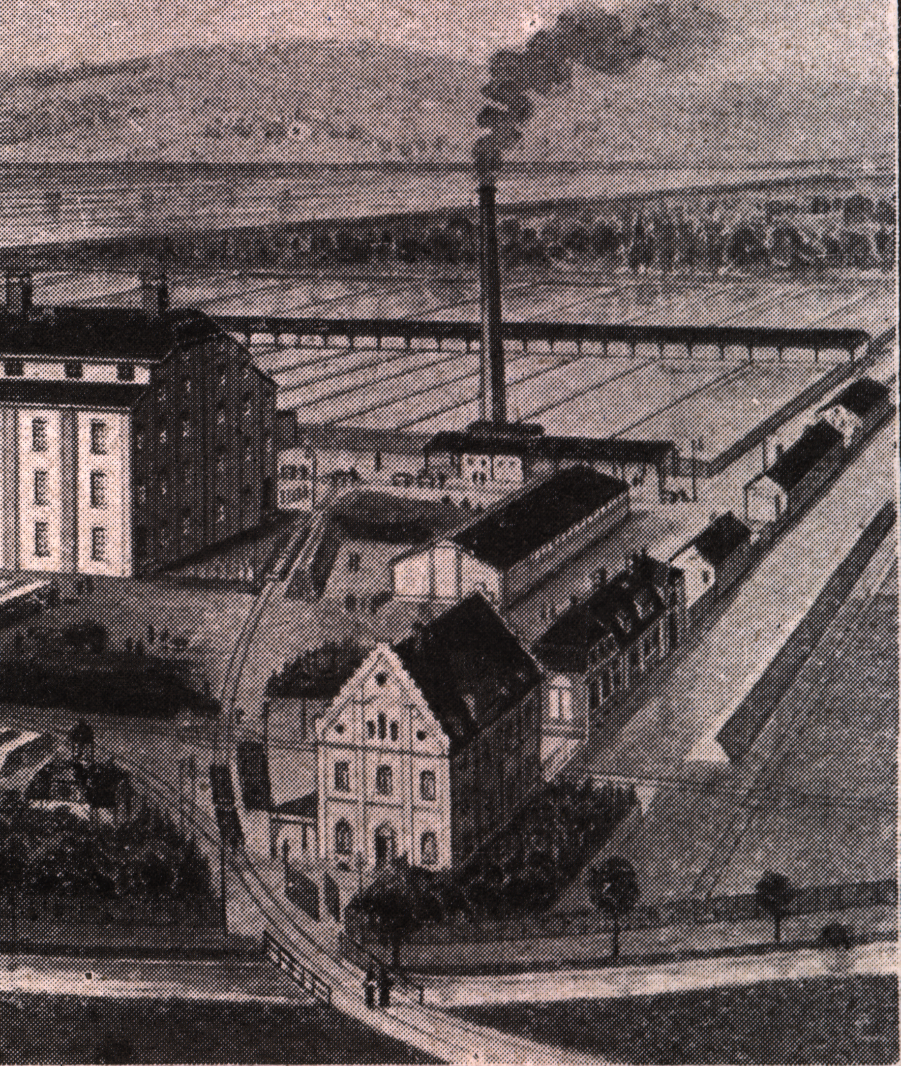 Tonwaren Industrie Wiesloch A.G. administration building (Verwaltungsgebäude), now Adelsförsterpfad 14, Wiesloch, c.1925 and former railway bridge crossing the River Leimbach from the Mannheim–Karlsruhe–Basel railway. As of 2016 the area now contains the Leimbach Park (Park am Leimbach), and District offices for the Region of Karlsruhe (Landratsamt Regierungsbezirk Karlsruhe).